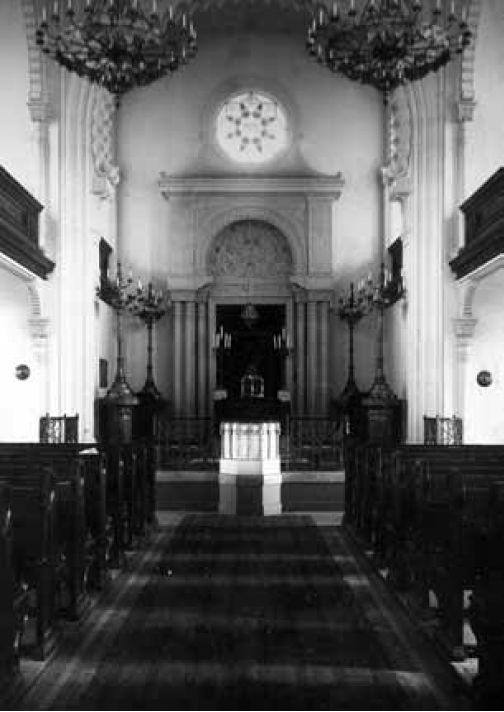 Synagogue of Jablonec nad Nisou (Gablonz an der Neiße) in the Sudeten, built in 1892 and destroyed by the nazis during the Kristal Nacht. - Interior of the synagogue